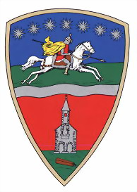 Coat of arms of county of Kingdom of Hungary